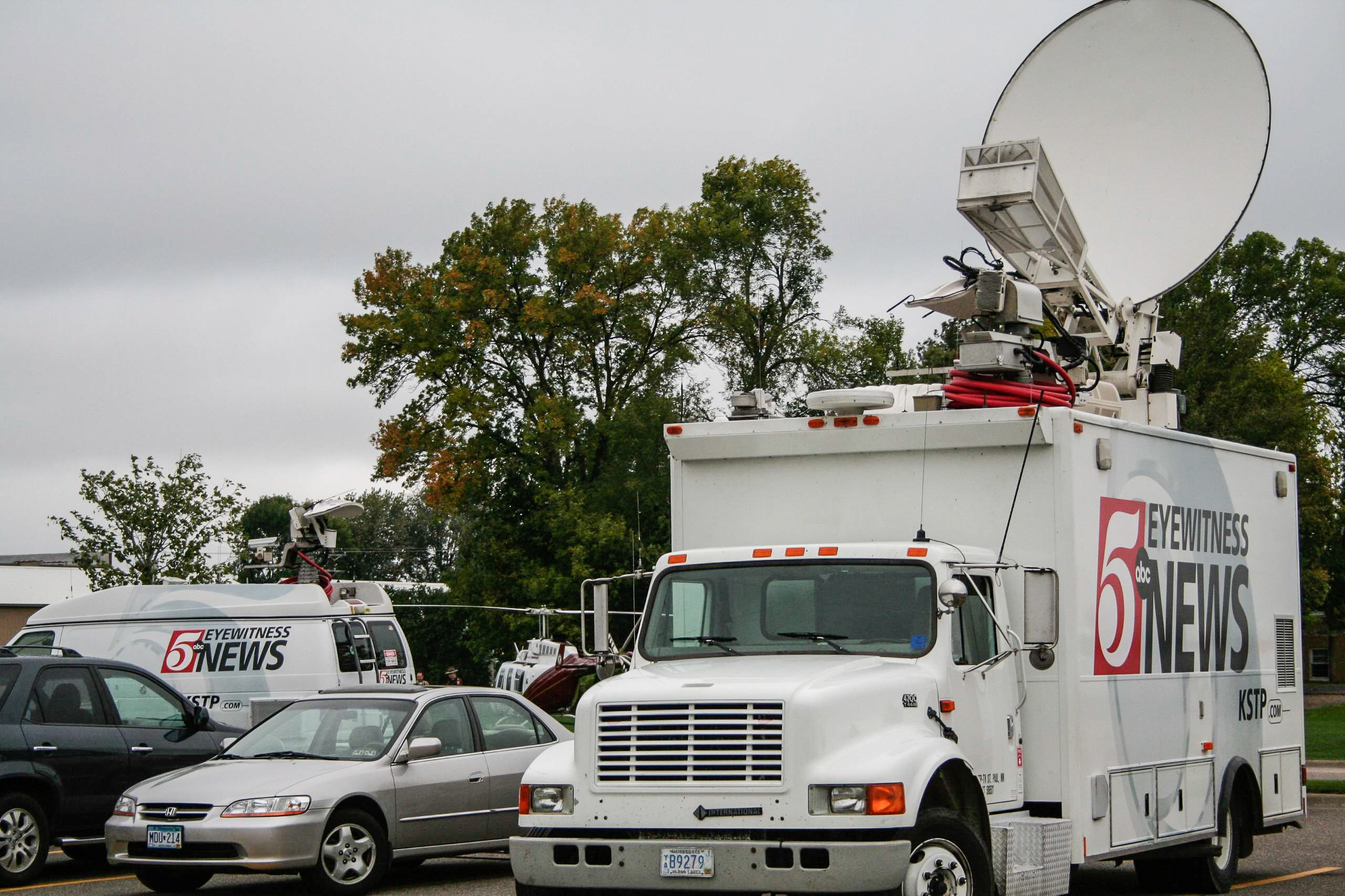 A satellite truck (uplink truck) belonging to television station KSTP channel 5 in Minneapolis, Minnesota, USA. It is used for remote video production, to film live events. The video feed is transmitted on a microwave beam from the big satellite dish antenna on the truck's roof, to a communication satellite in a geostationary orbit above the Earth's equator, which retransmits it on another microwave beam down to a dish at the television studio, which edits the video and transmits it to television viewers.